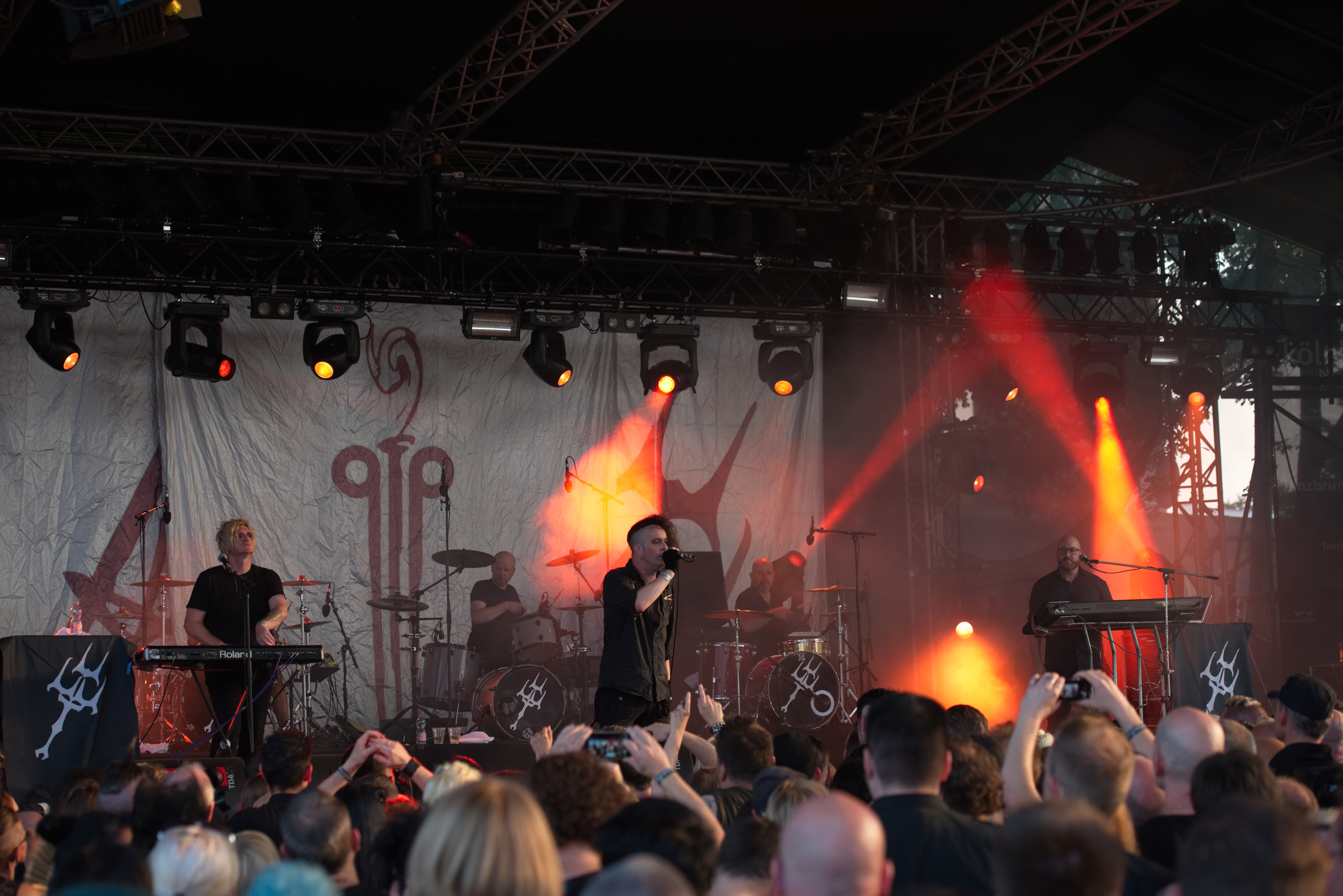 Project Pitchfork, Amphi festival 2016